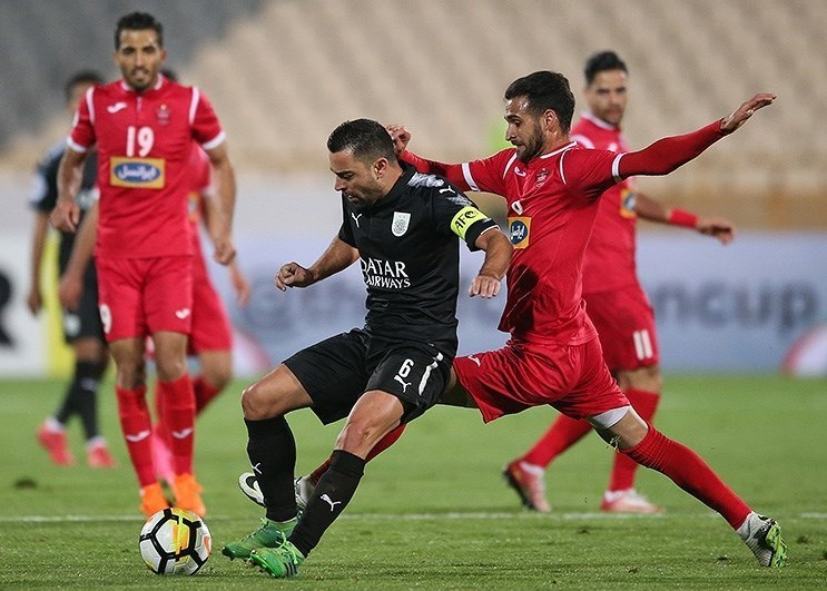 Ahmad Nourollahi and Xavier Hernández Creus in Persepolis and Al sadd match.